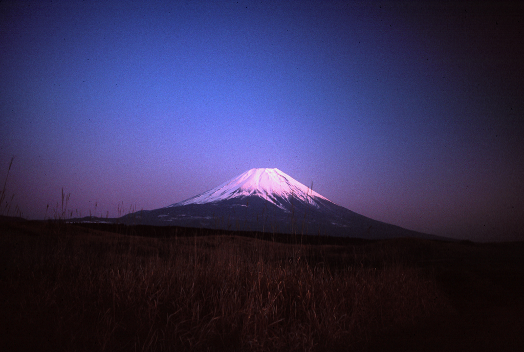 Mount Fuji, boundary of Yamanashi Prefecture and Shizuoka Prefecture, Japan.